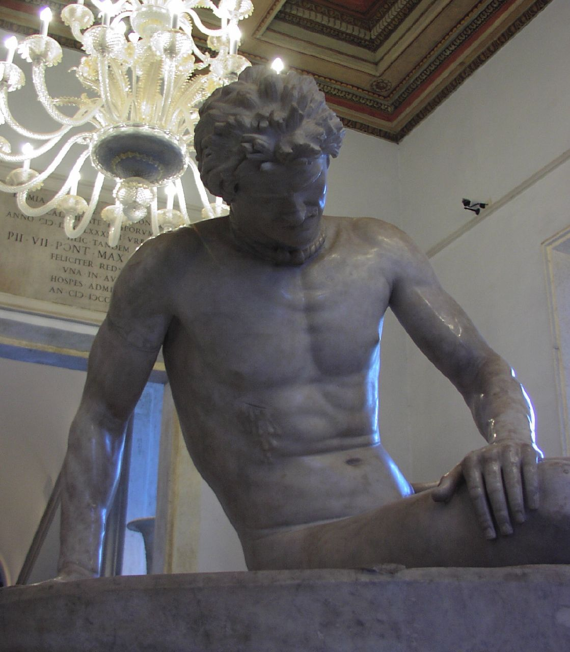 The Dying Gaul is one of the best-known and most important works in the Capitoline Museums. It is a replica of one of the sculptures in the ex-voto group dedicated to Pergamon by Attalus I to commemorate the victories over the Galatians in the 3rd and 2nd centuries BC. The identity of the author of the original is unknown, but it has been suggested that Epigonus, the court sculptor of the Attalid dynasty of Pergamon, may have been its creator.